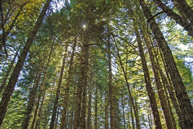 The BLM manages 2.4 million acres of forests and woodlands in western Oregon - which includes 2.2 million acres of commercial forest and 200,000 acres of woodlands.